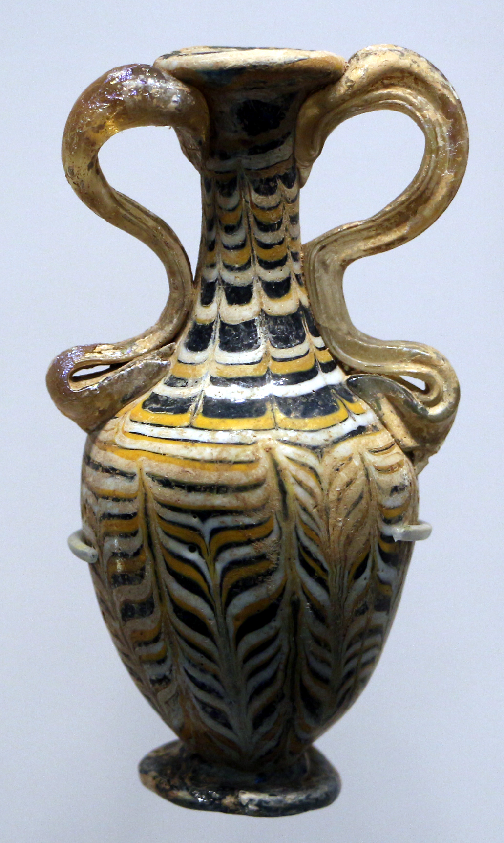 Ancient glassware in the Art Institute of Chicago